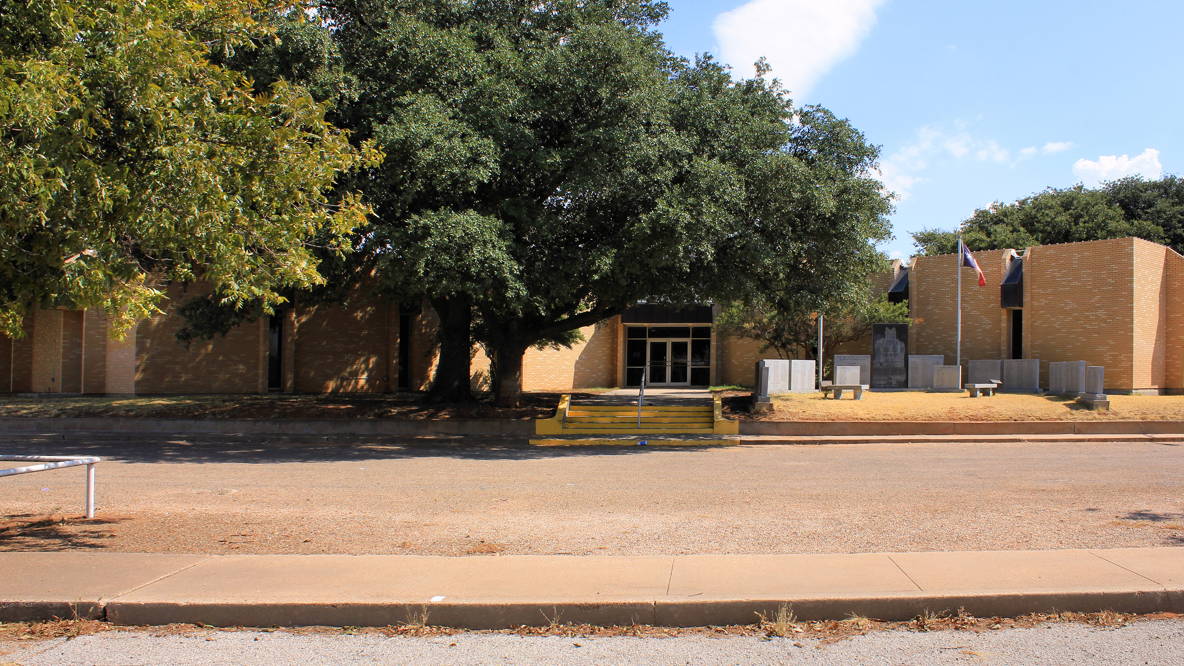 The Fisher County, Texas Courthouse in Roby, Texas, United States was built in 1972.